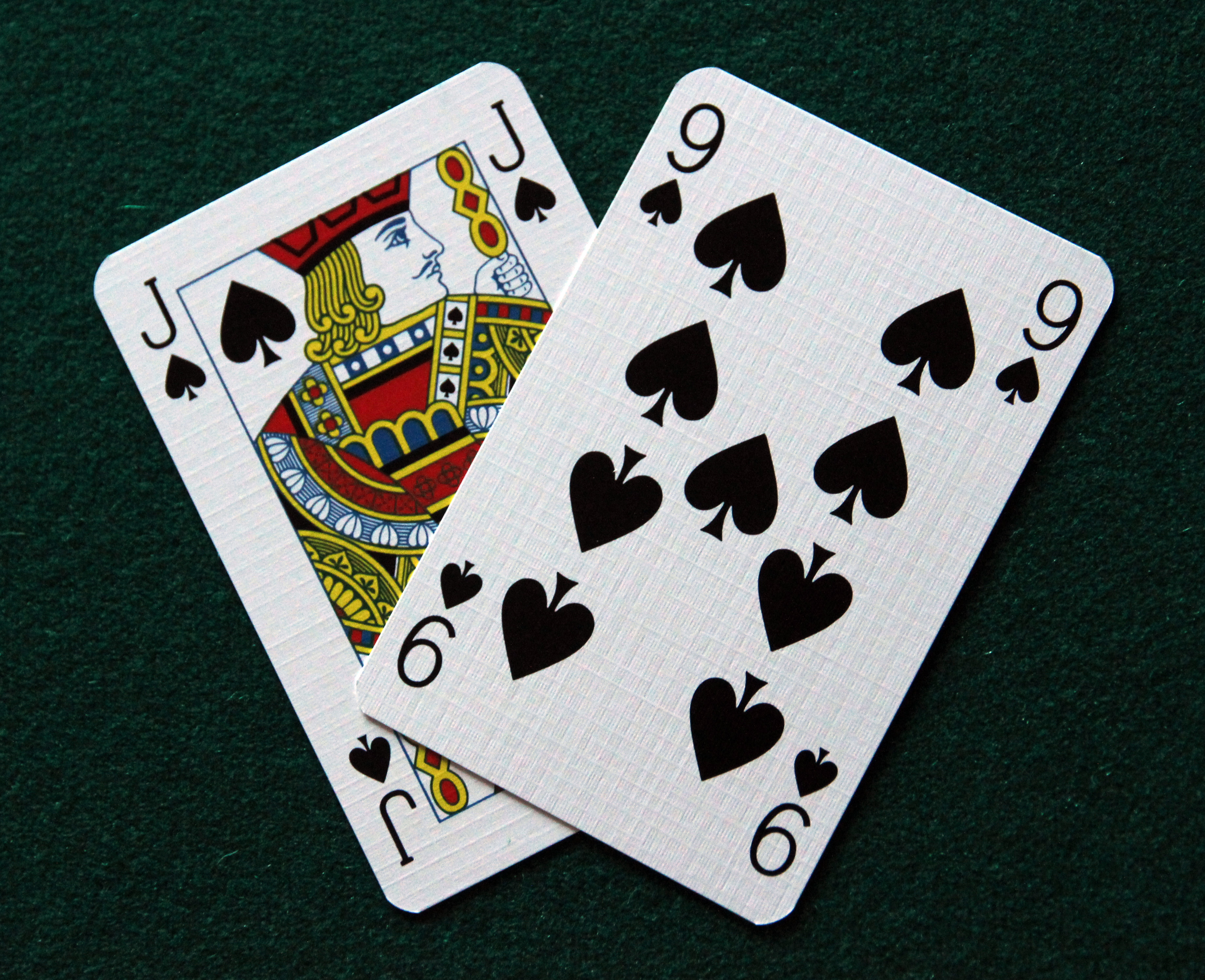 Example of the top cards in a Jack-Nine game - the Jack and Nine of Spades